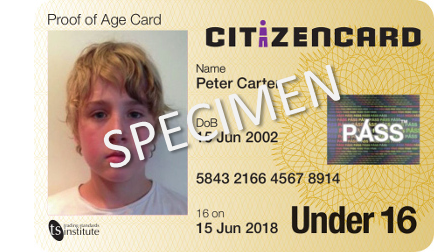 CitizenCard photo id card for under 16